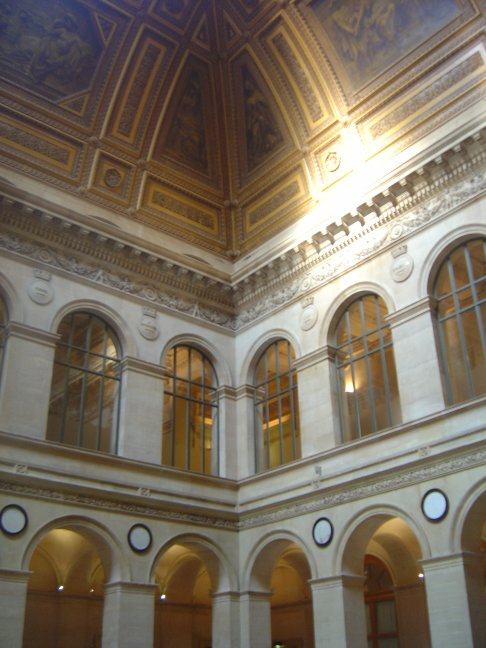 The Palais Brongniart, in Paris (former Paris stock exchange)